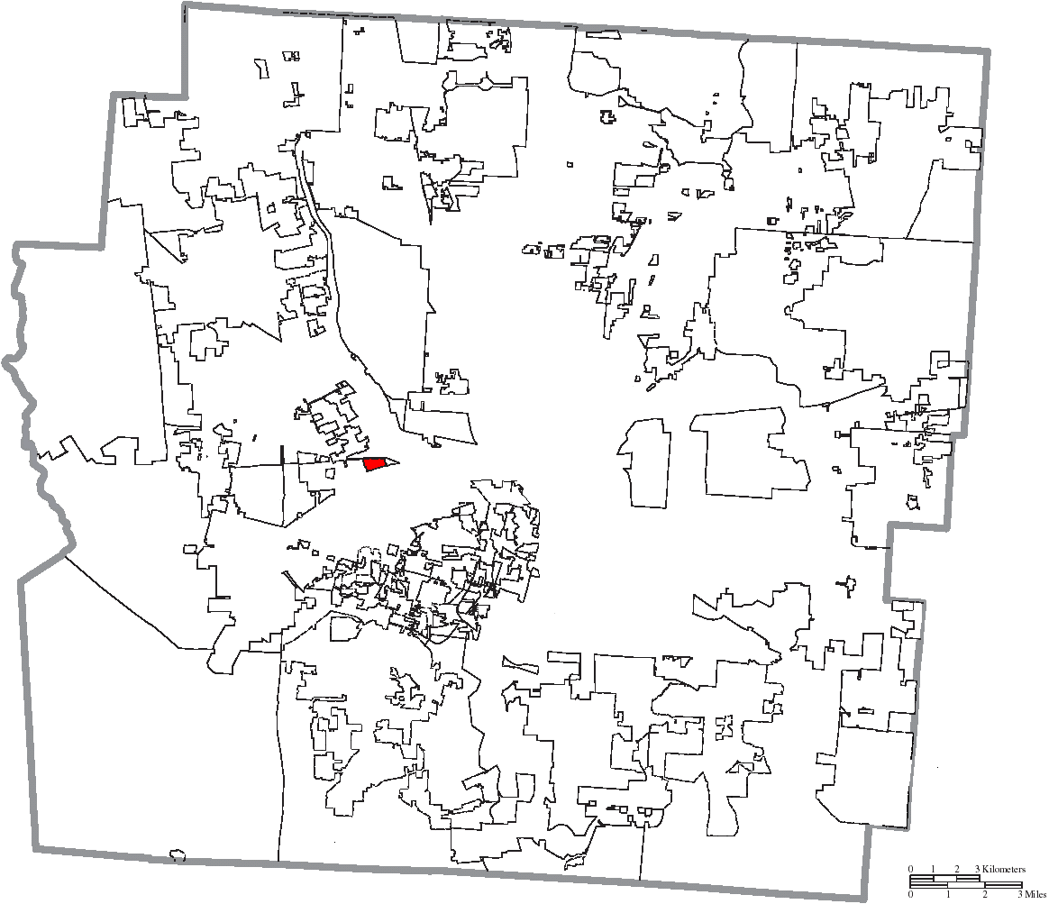 Map of the municipal and township boundaries of Franklin County, Ohio, United States, as of the 2000 census, with the location of the village of Valleyview highlighted. Township borders are shown only in unincorporated areas in order to differentiate incorporated and unincorporated areas more clearly. Due to the extremely fractured nature of the county's municipal boundaries, details of boundaries and the identity of township islands may be inaccurate.